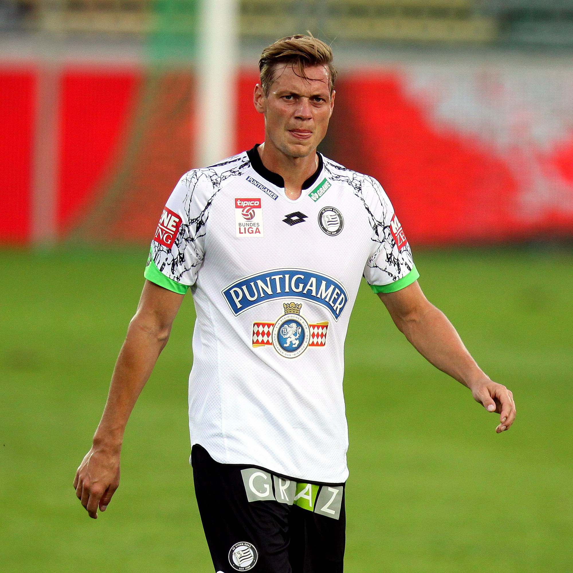 Match of the Austrian Football Bundesliga – SV Mattersburg (green shirts) vs. SK Sturm Graz (white shirts) on 2015-09-13 in Pappelstadion, Mattersburg – The photo shows Roman Kienast